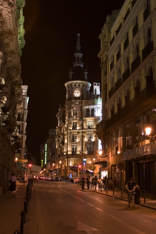 Night view from Carrera de San Jerónimo (street) in Madrid (Spain). In the background, Plaza de Canalejas (square), and in it, Casa de Don Tomás de Allende ("Don Tomás de Allende's House").